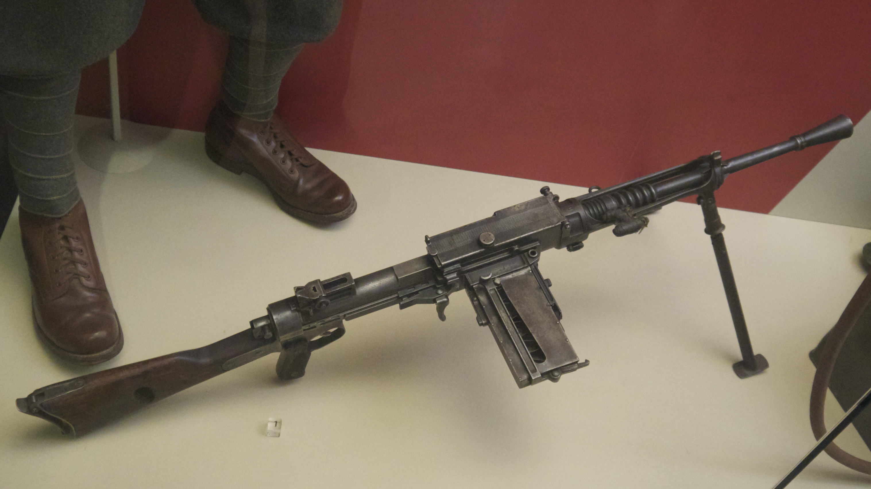 Breda 30 light machine gun displayed in Canadian War Museum, Ottawa.